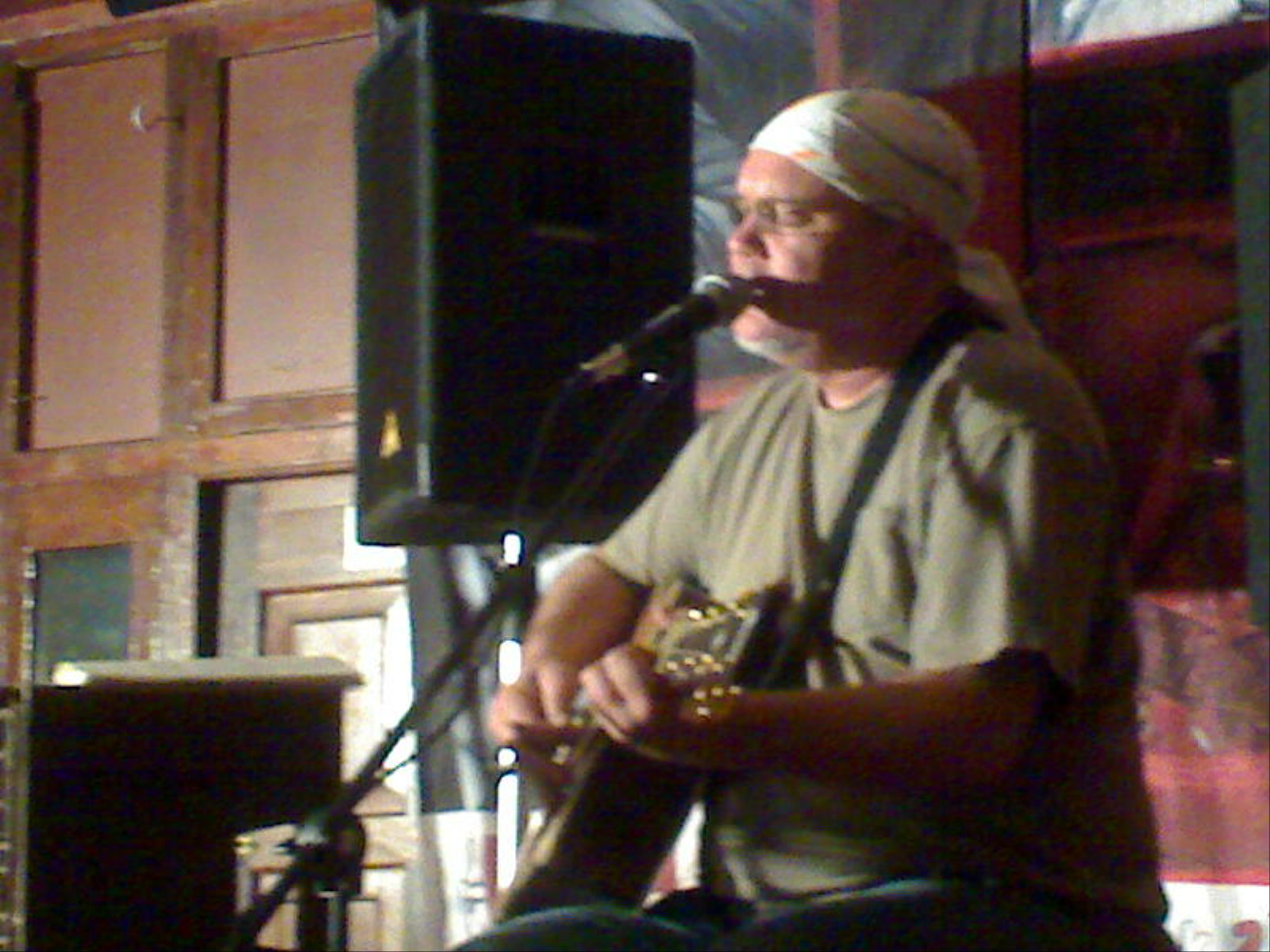 The legendary Koos Kombuis shows he has stll got what it takes at a sold-out show at Back2Basix, Westdene.